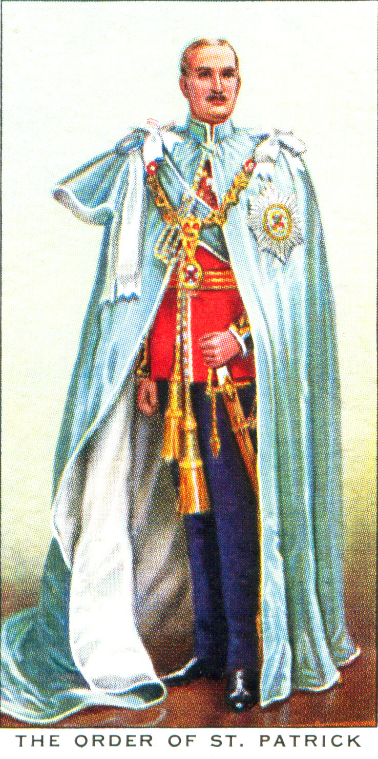 Player's cigarettes. Coronation series, ceremonial dress